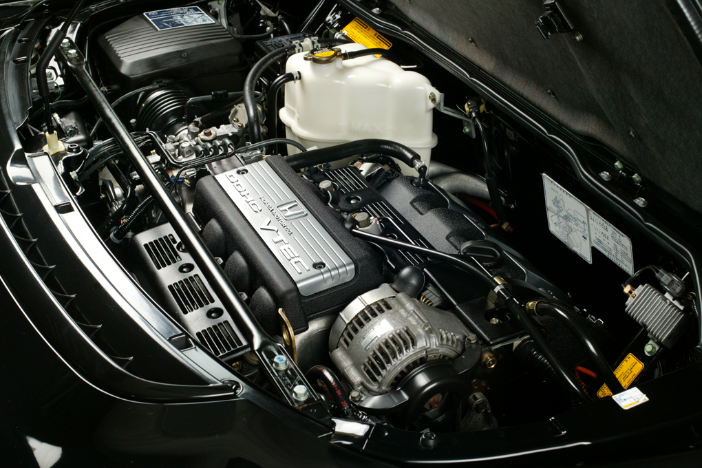 Honda C30B engine of NSX.